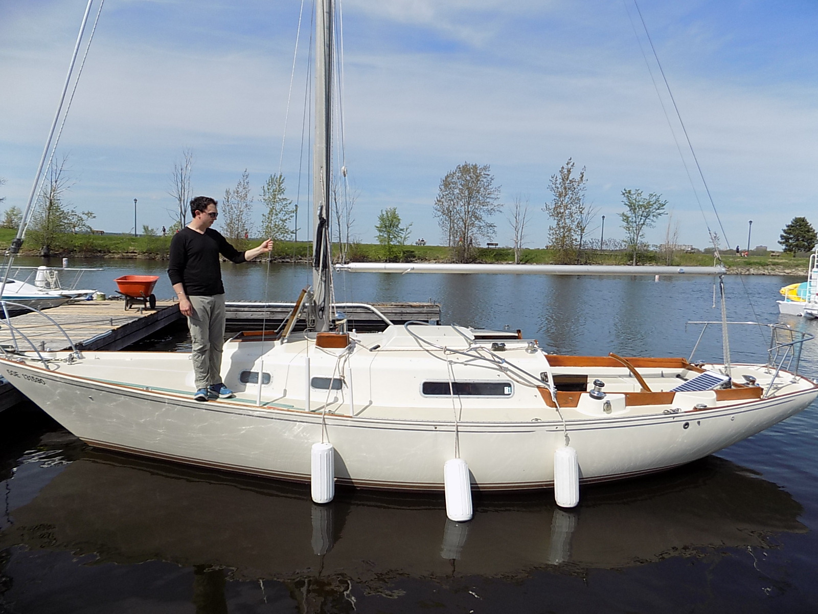 An C&C Redwing 30 sailboat named Ayrborn with owner Clayton Polan on board.